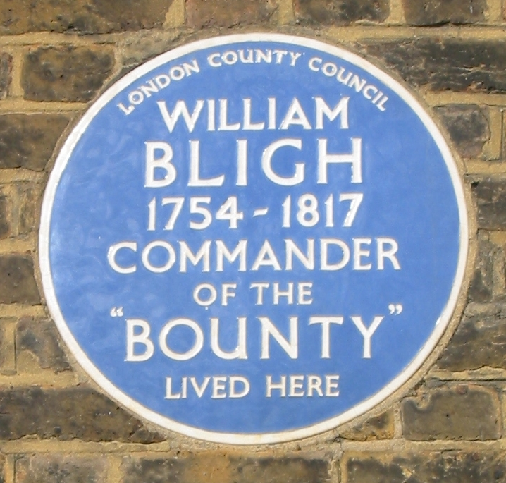 London